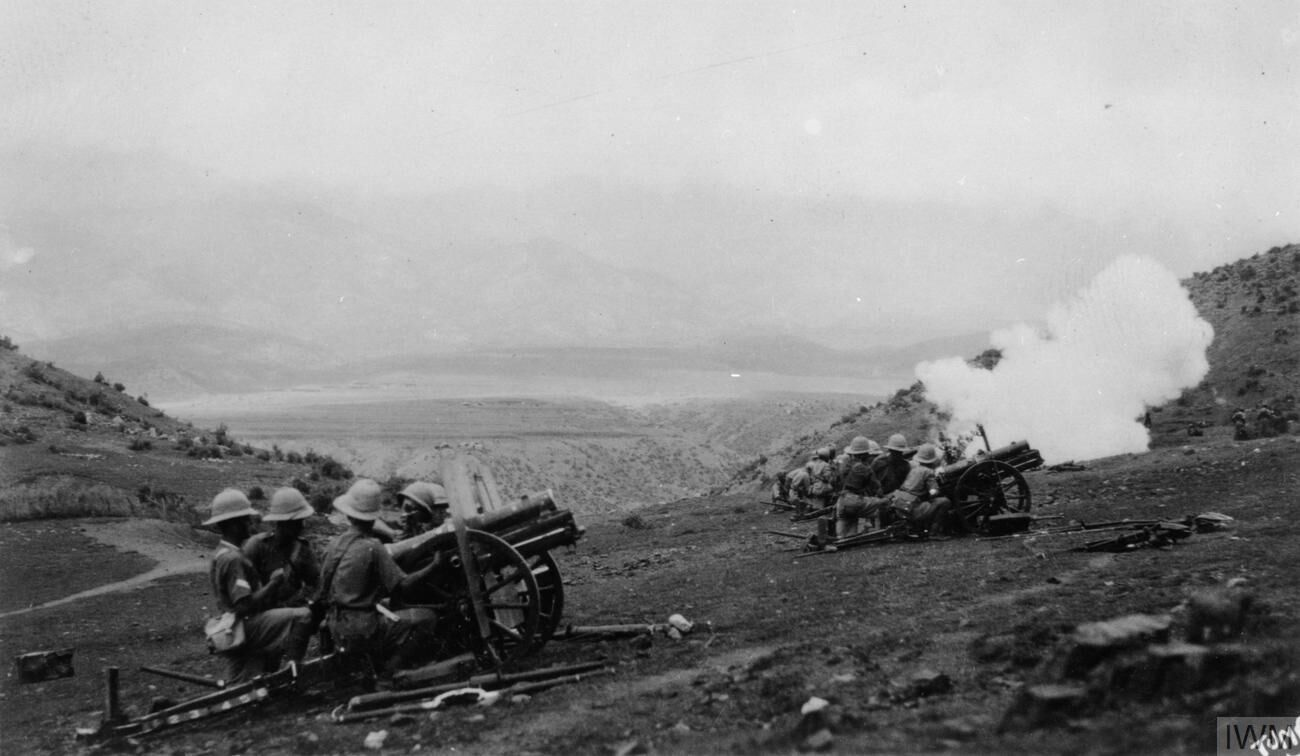 SERVICE OF SERGEANT HARRY EWIN WITH THE ROYAL ARTILLERY IN INDIA DURING THE EARLY 1930s Mountain guns (3.7 inch pack howitzers) of No.11 Light Battery (RFA) deployed in open positions on a hillside. One gun, crewed by Indian gunners, has just fired a round.